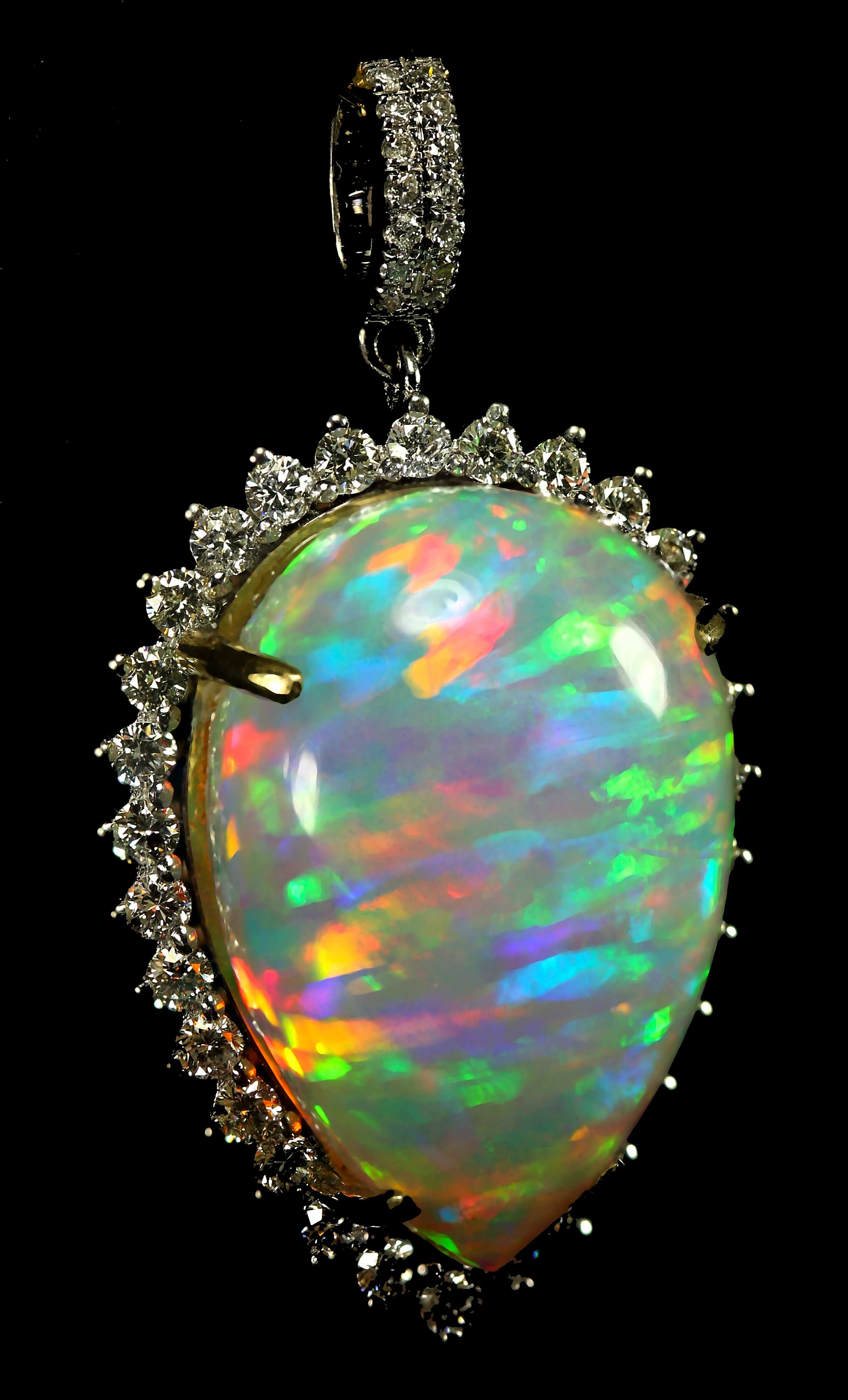 20.05 carat Ethiopian Welo (Wello) opal set in 14k gold and surrounded by diamonds.